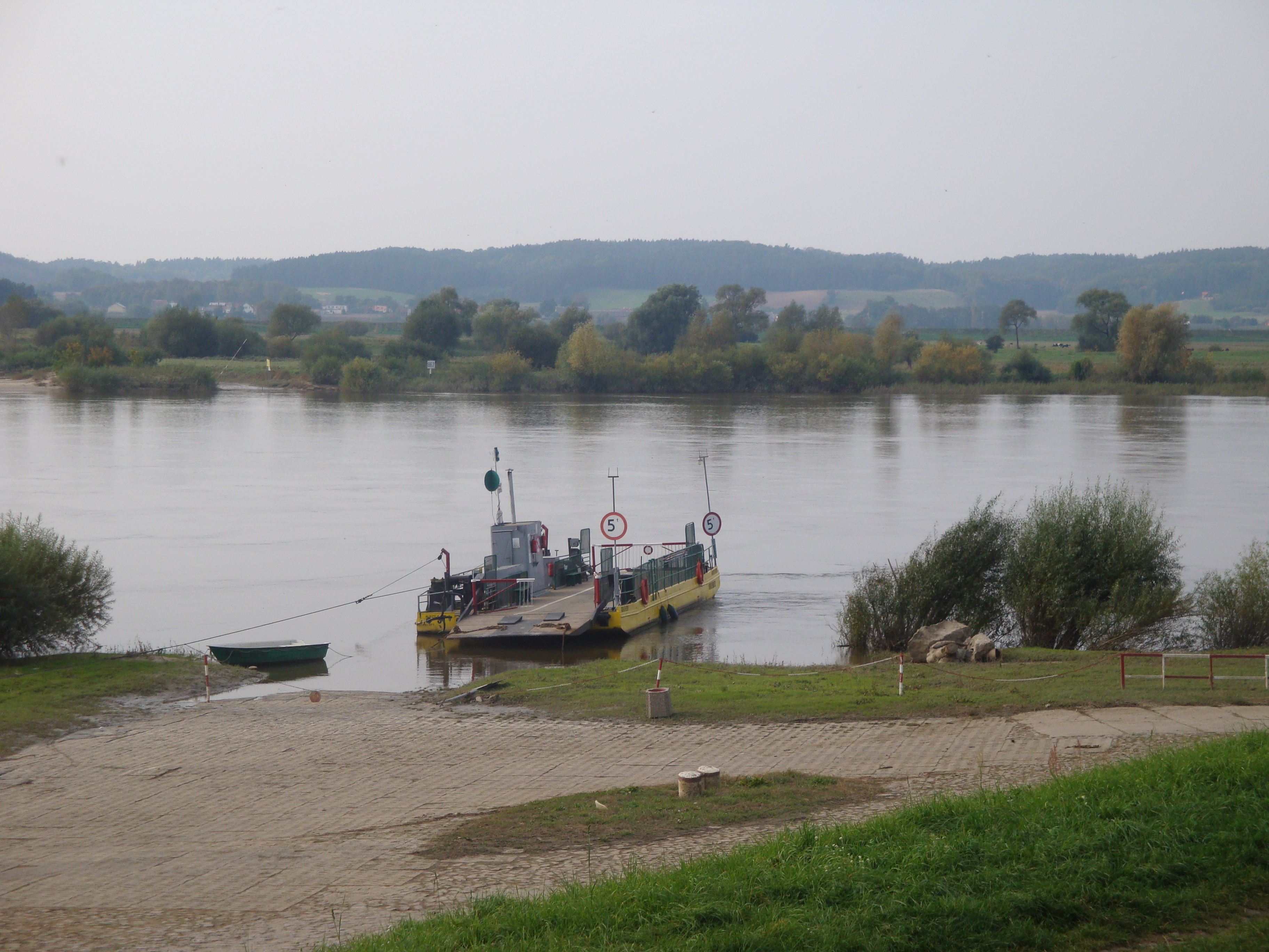 Korzeniewo-village near Kwidzyn, Poland. Ferry trough Vistula in National Road 90